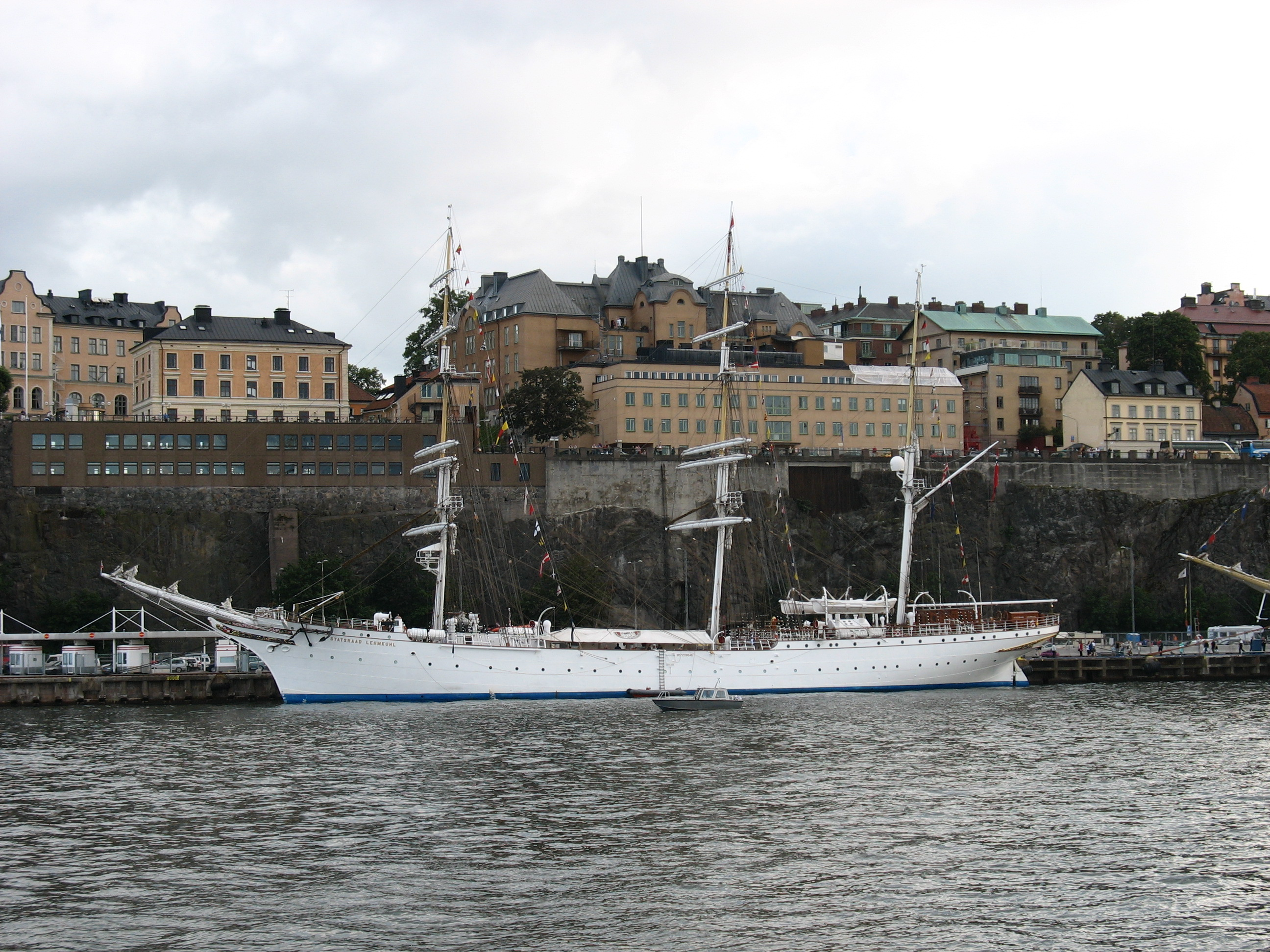 The Norwegian three-master barque Statsraad Lehmkuhl anchored in Stockholm, during the Tall Ships' Races 2007.